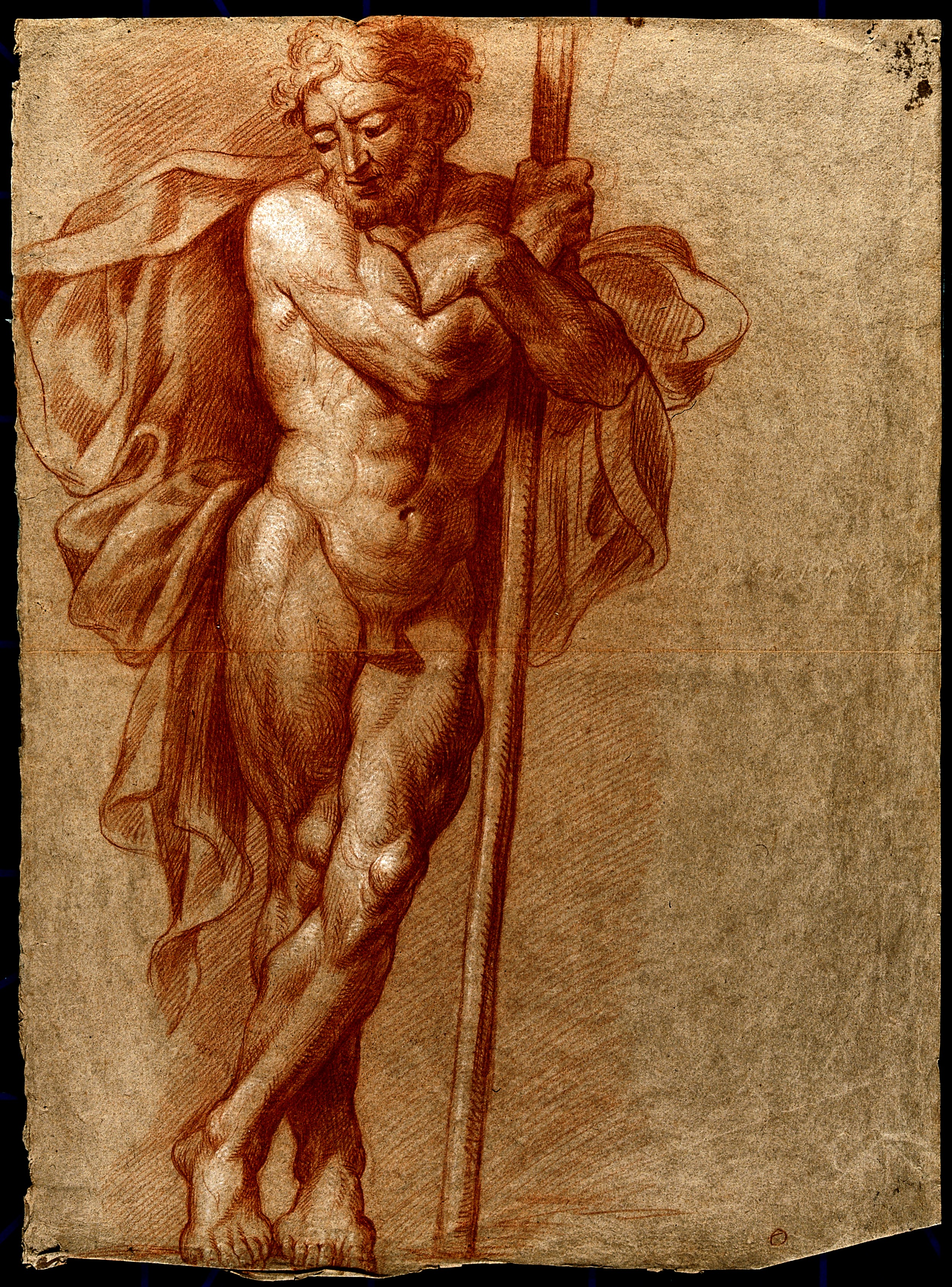 A standing male nude with cloak: arms folded around a staff. Red chalk drawing by J.J. Masquerier. Iconographic Collections Keywords: John James Masquerier